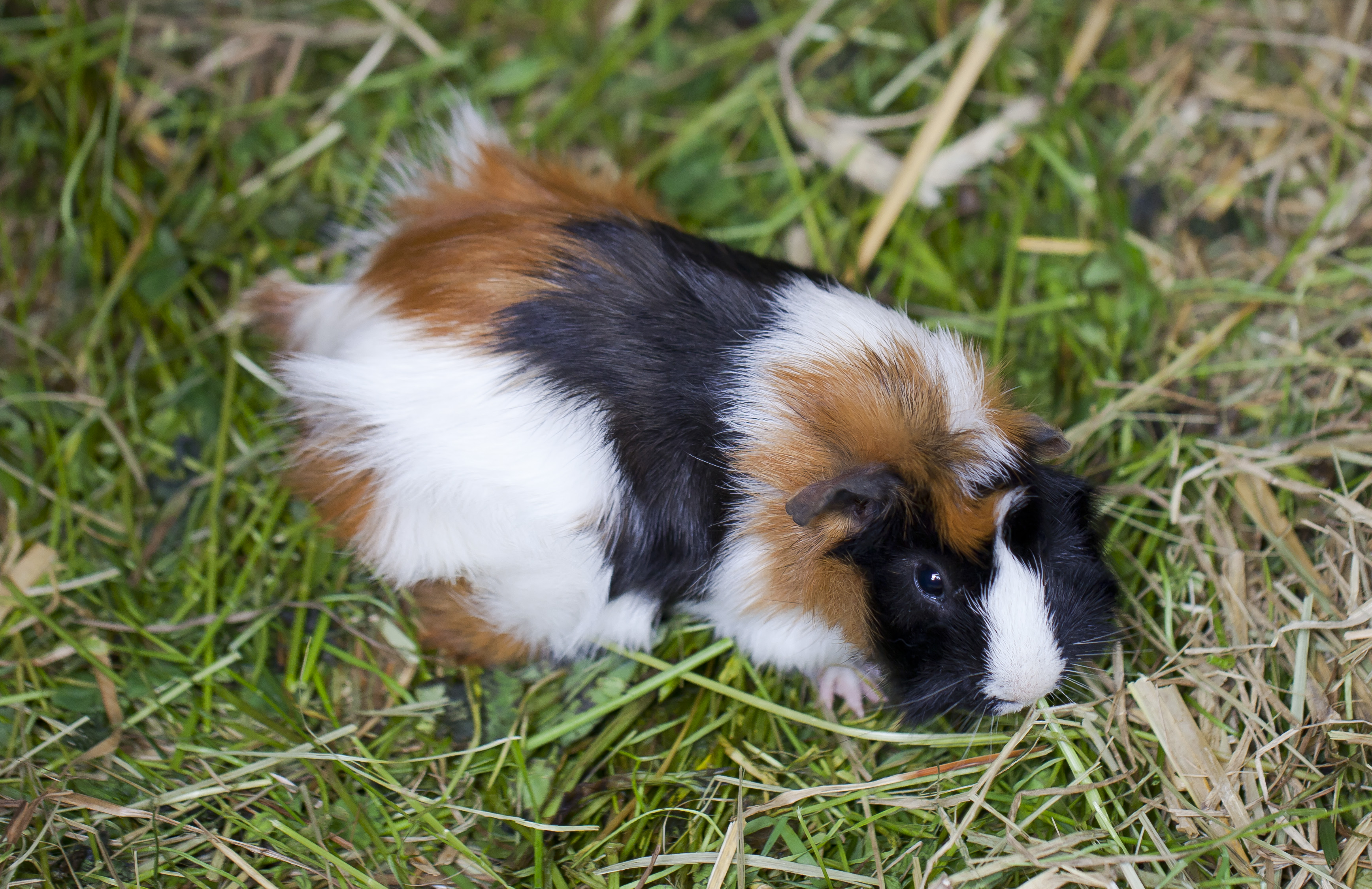 Guinea pig (Cavia porcellus), Tierpark Hellabrunn, Munich, Germany